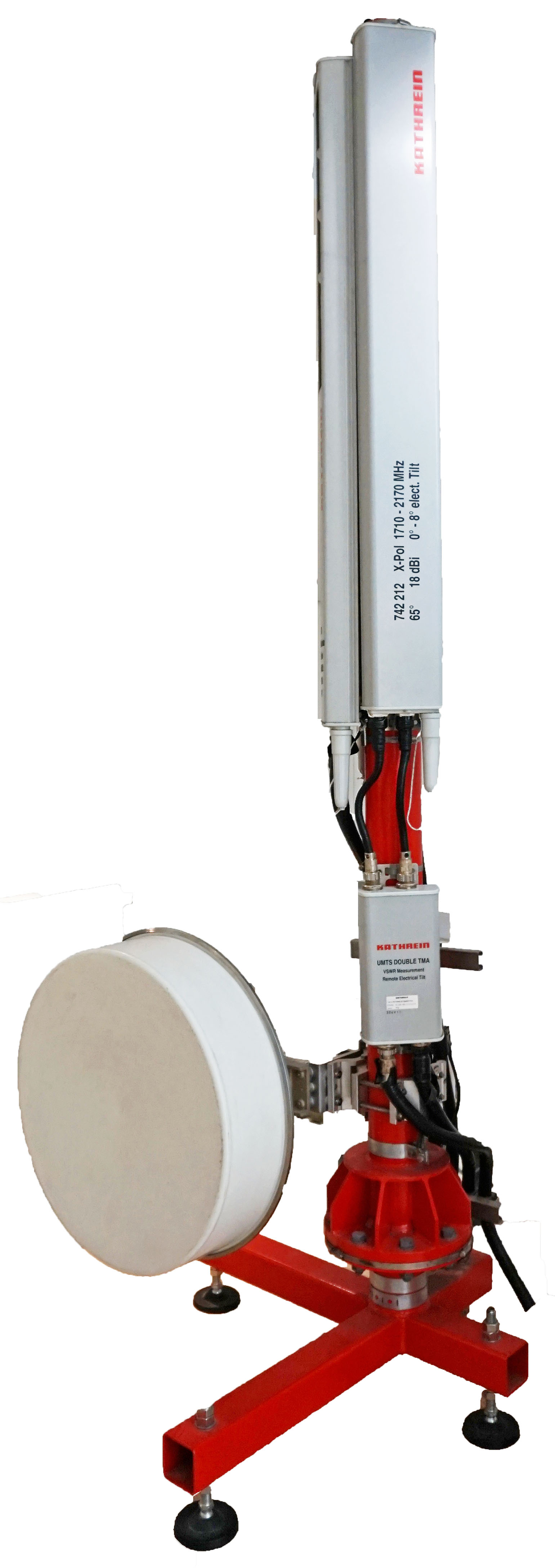 Kathrein antenna with masthead amplifier. Deutsches Museum, Munich.This photograph was taken with a Sony ILCE-5000